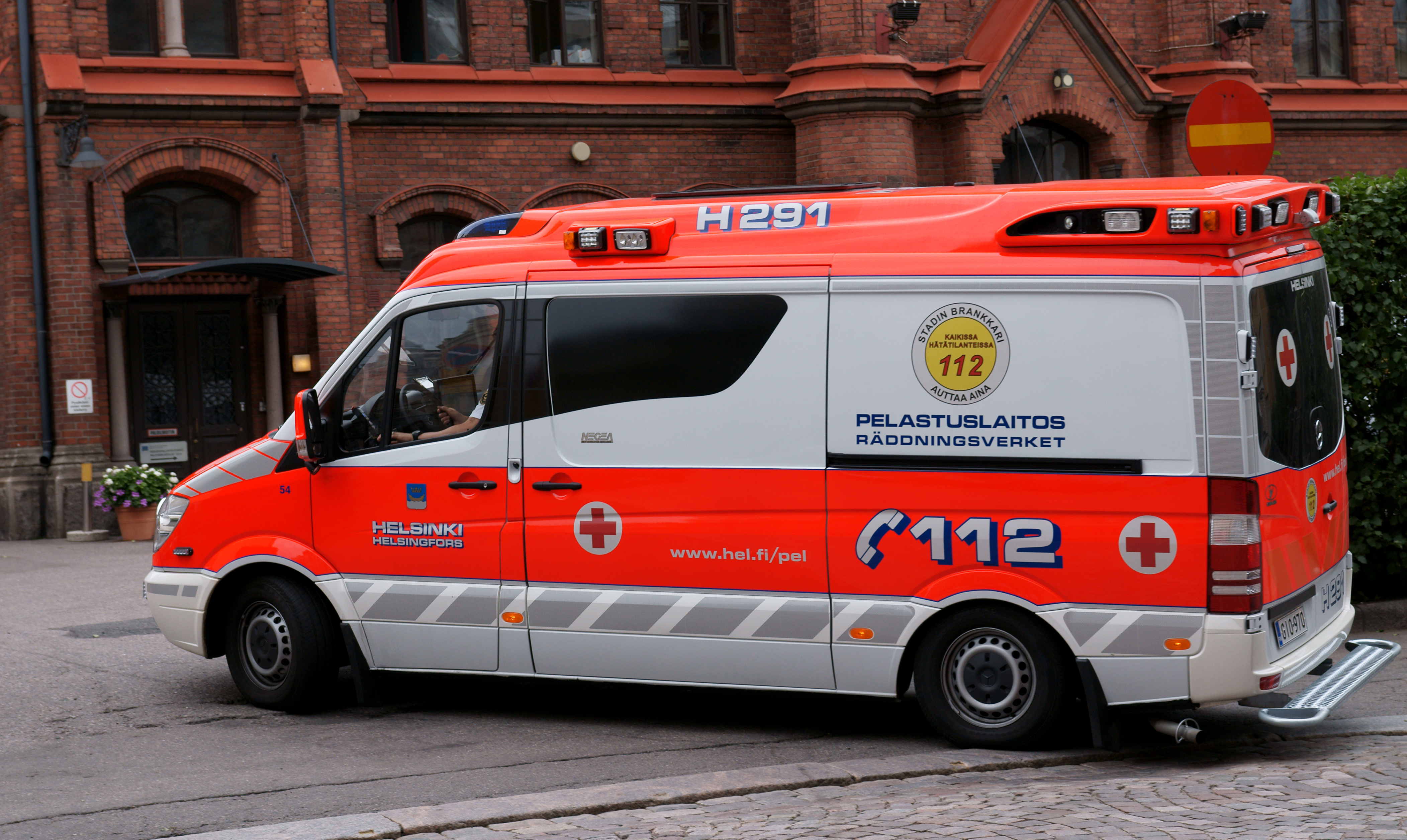 Ambulance in Helsinki.